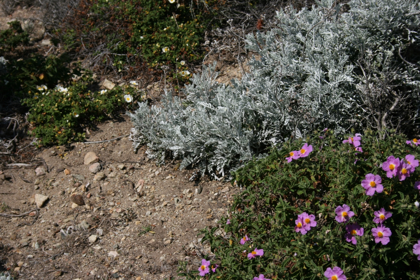 Cistus creticus ssp. corsicus and Senecio bicolor in the garrigue of Agriates, Corsica.